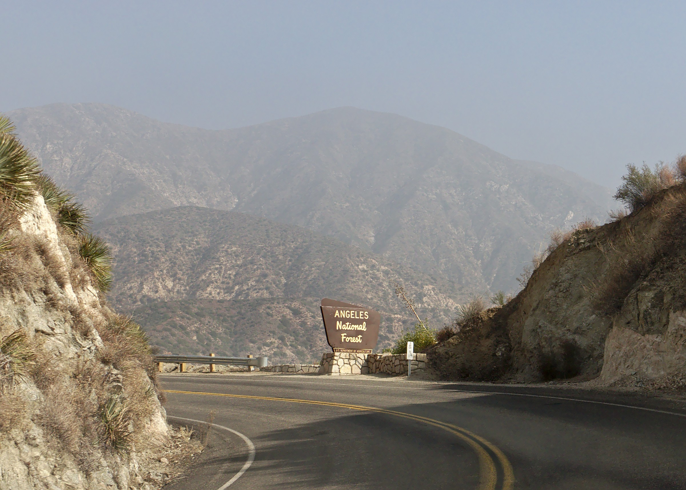 Entering Angeles National Forest from the south on the Angeles Crest Highway.